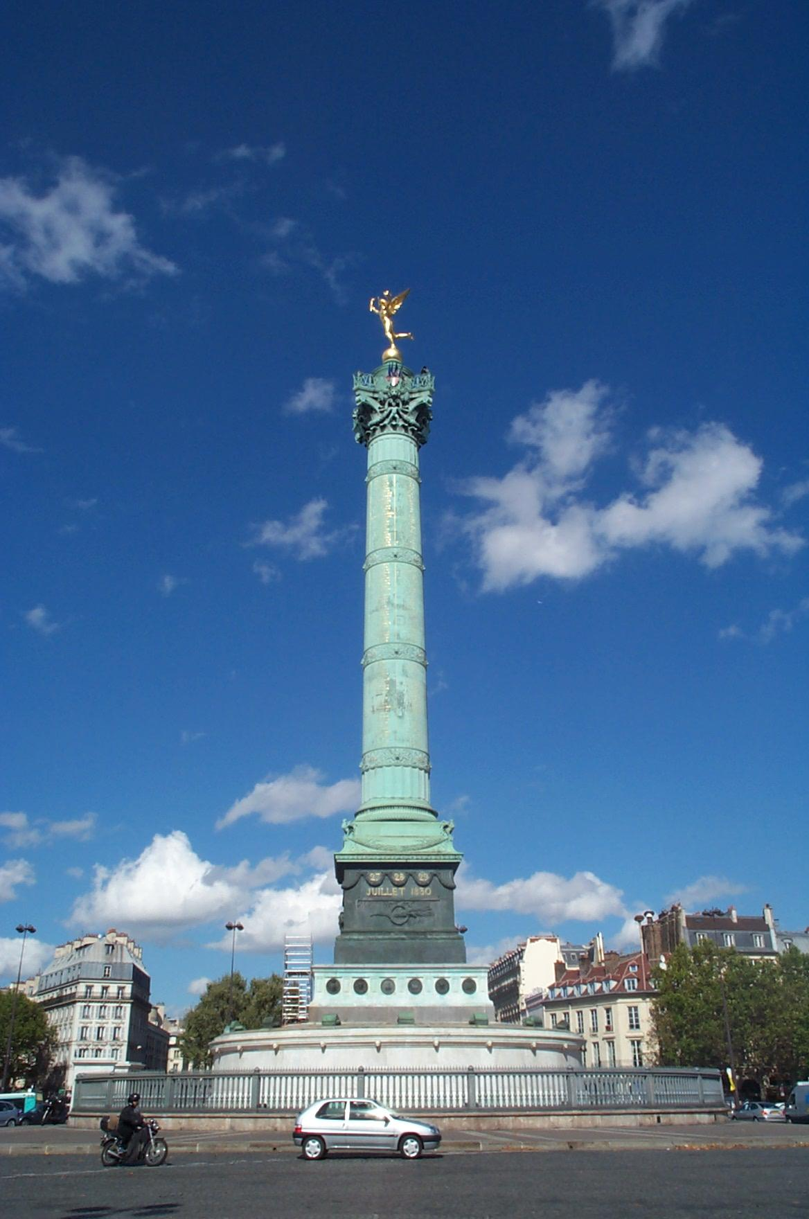 Place de la Bastille showing the July Column